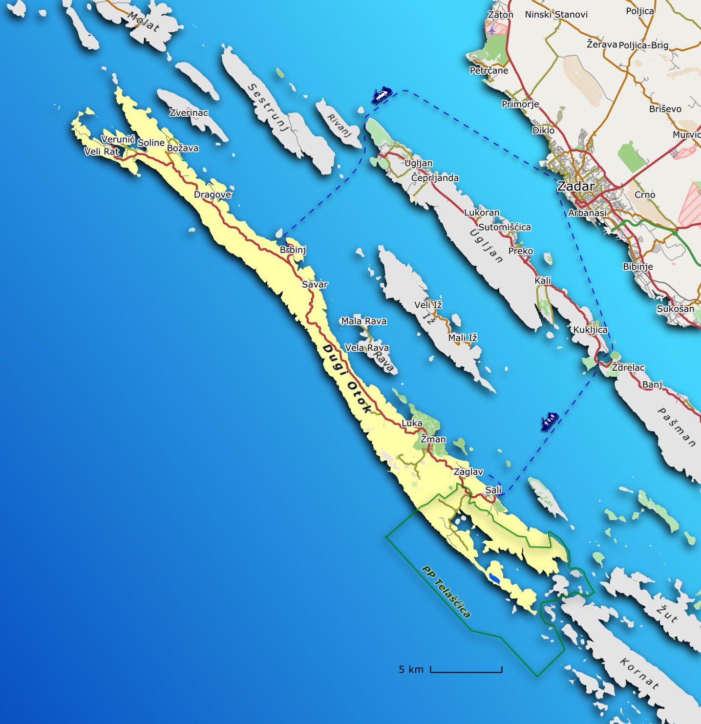 Island of Dugi Otok